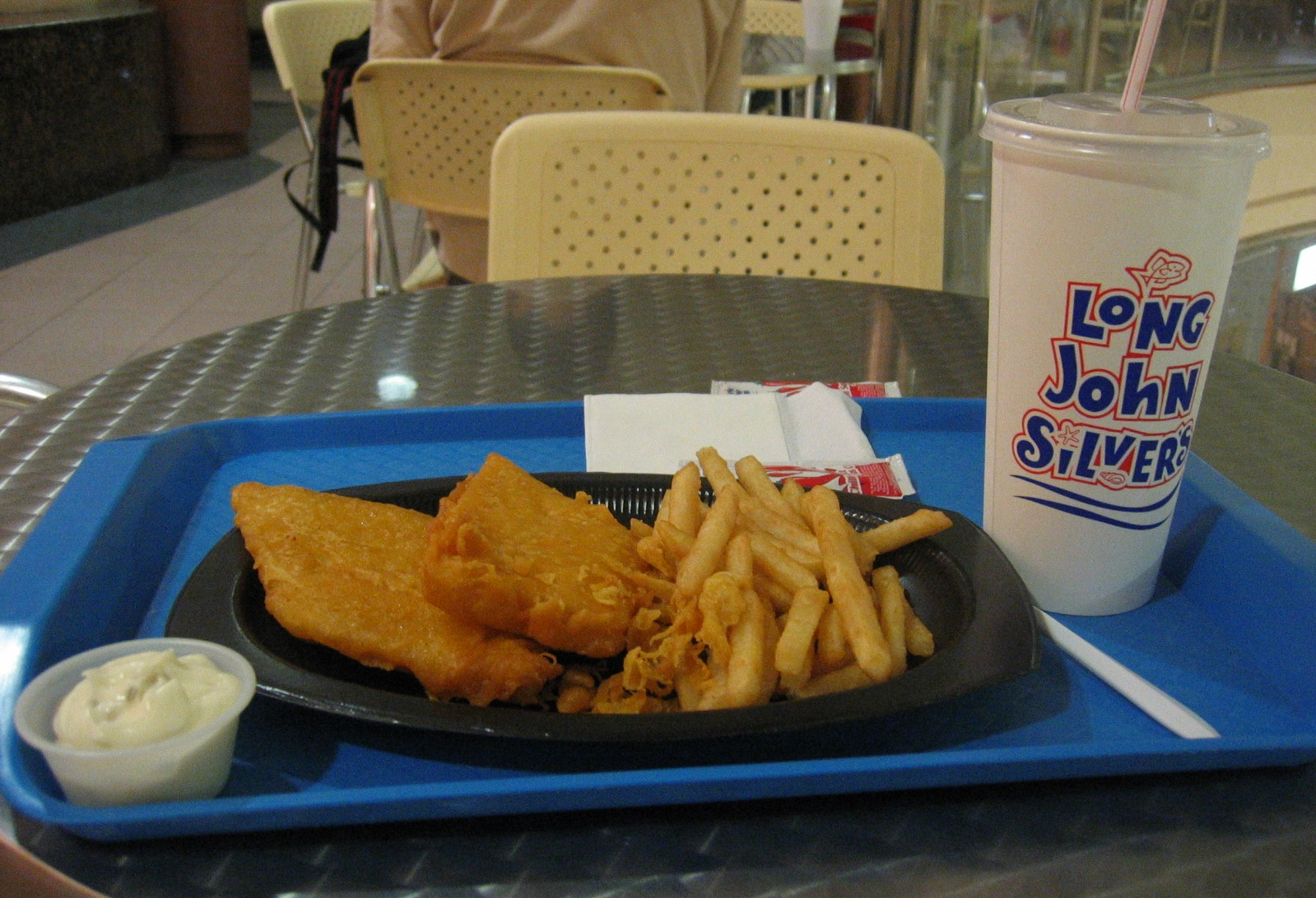 Fish and chips from Long John Silver's Singapore. Taken by Terence Ong in November 2006.